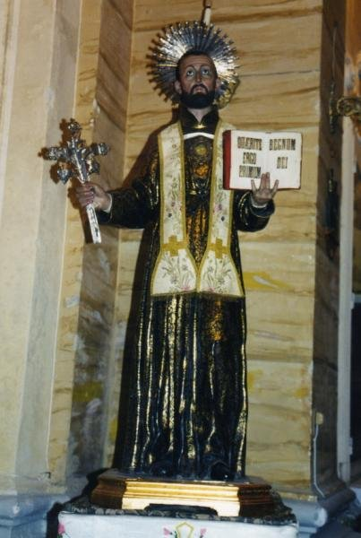 Statue of St. Gaetano Thiene.